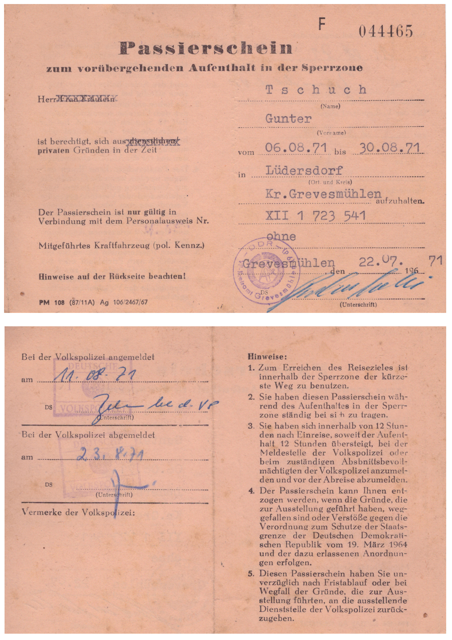 Passierschein for Sperrzone (exclusion zone) 5 km from border line of GDR to inner German border